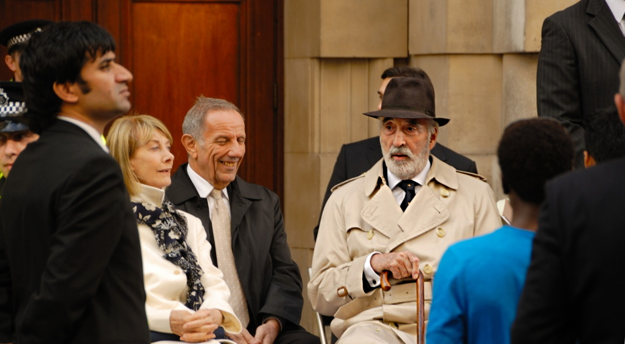 Christopher Lee filming in Westminster for a film called 'The Heavy'